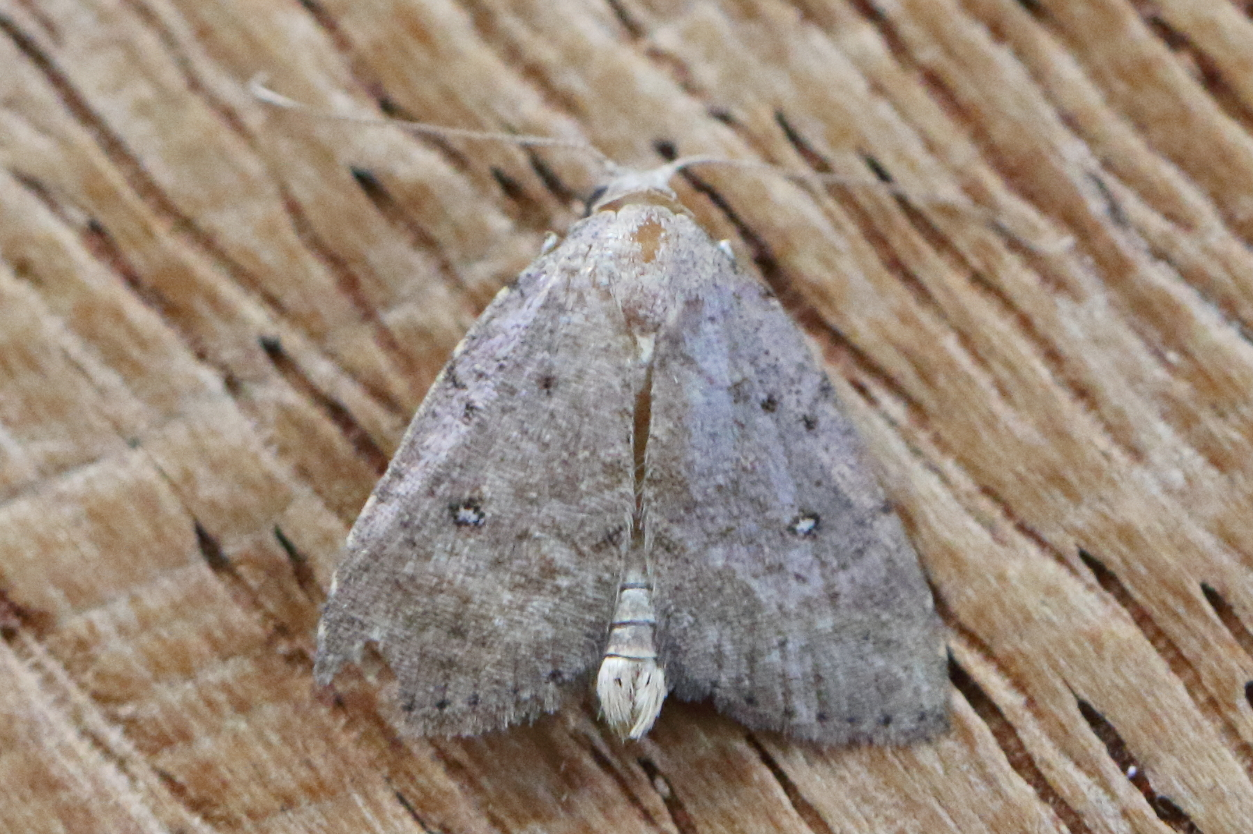 Tolpiodes oligolasia. Species of insect.